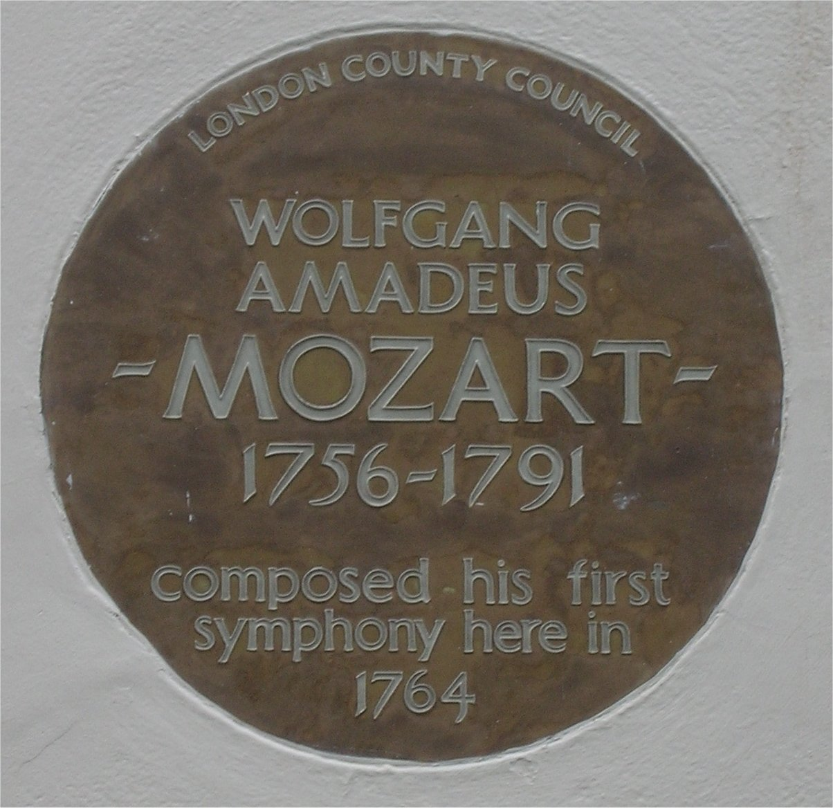 A brown "Blue plaque" to Wolfgang Amadeus Mozart on his house at Mozart Terrace, Ebury Street, London, England. Photographed by me 29 September 2006. Oosoom